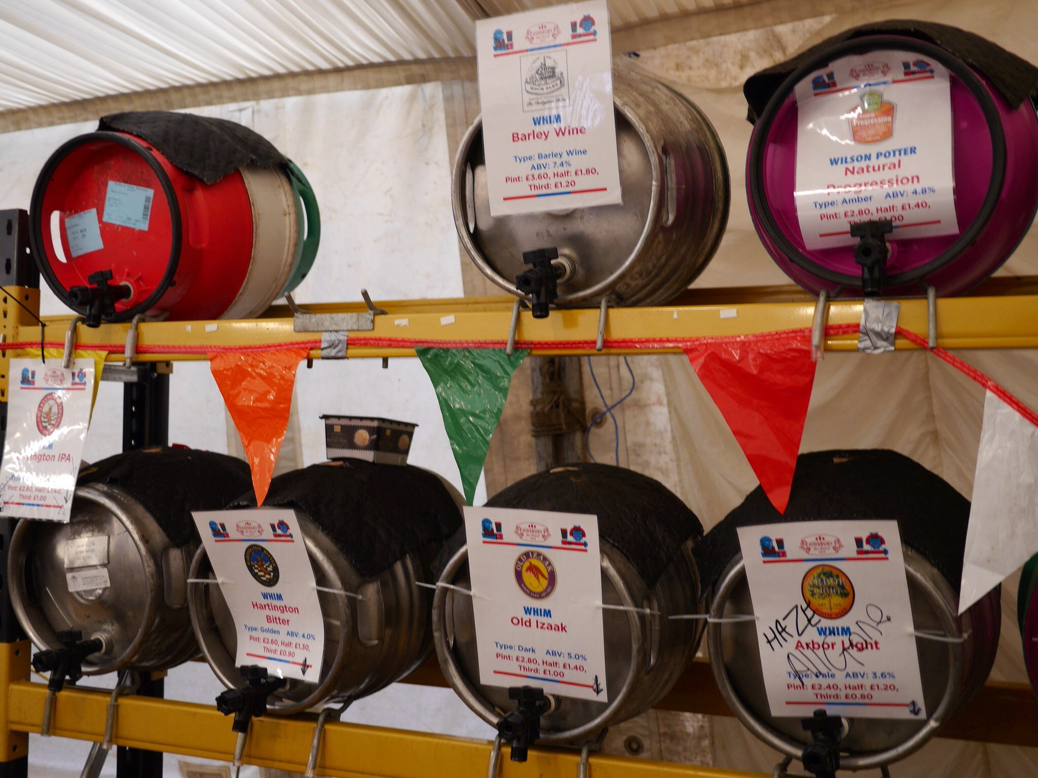 From the Didsbury Beer Festival. Beer from the Whim brewery from Hartington, Derbyshire. The Wilson Potter ( top right) was very popular.